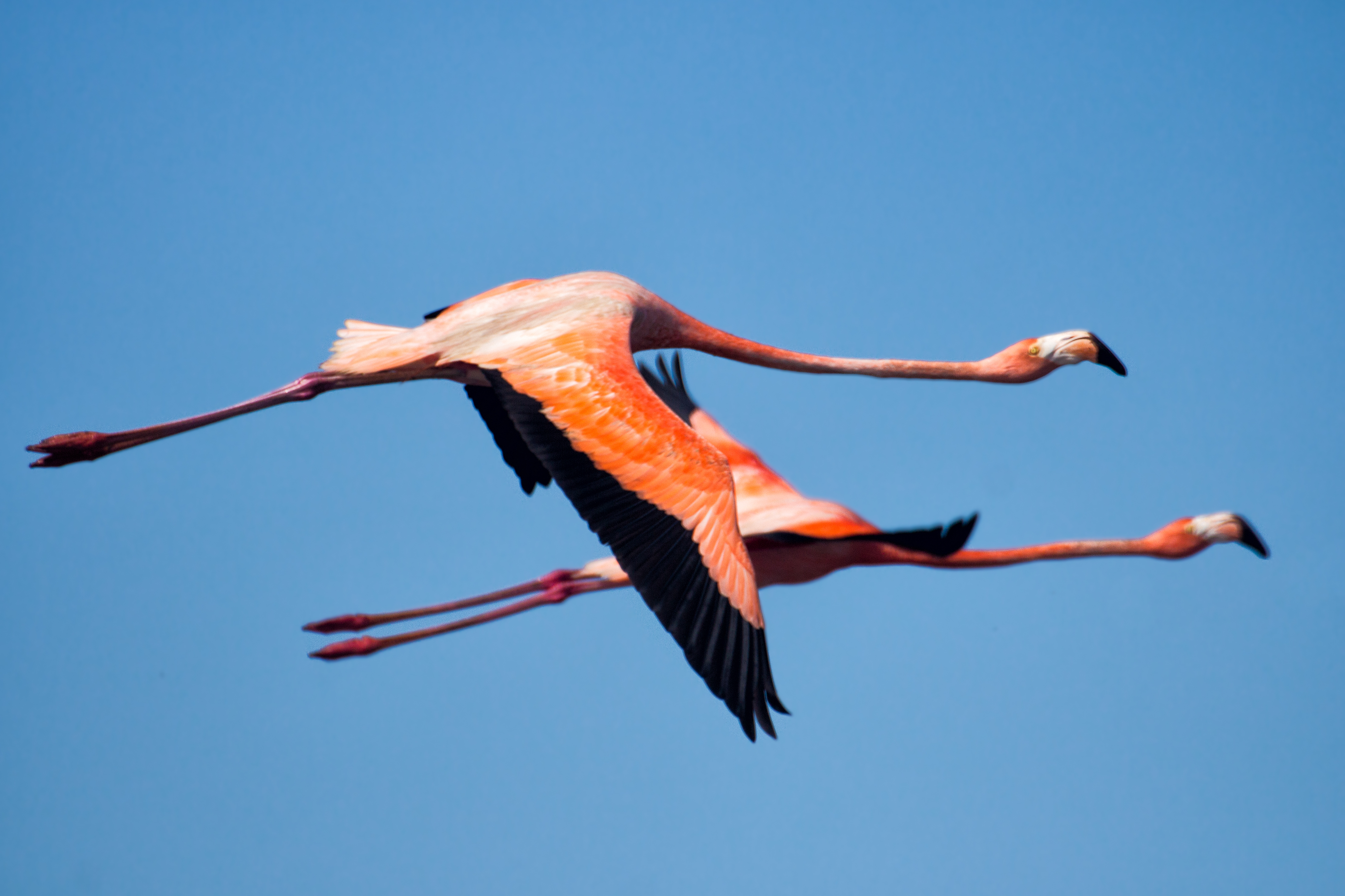 American Flamingo | Flamenco (Phoenicopterus ruber)